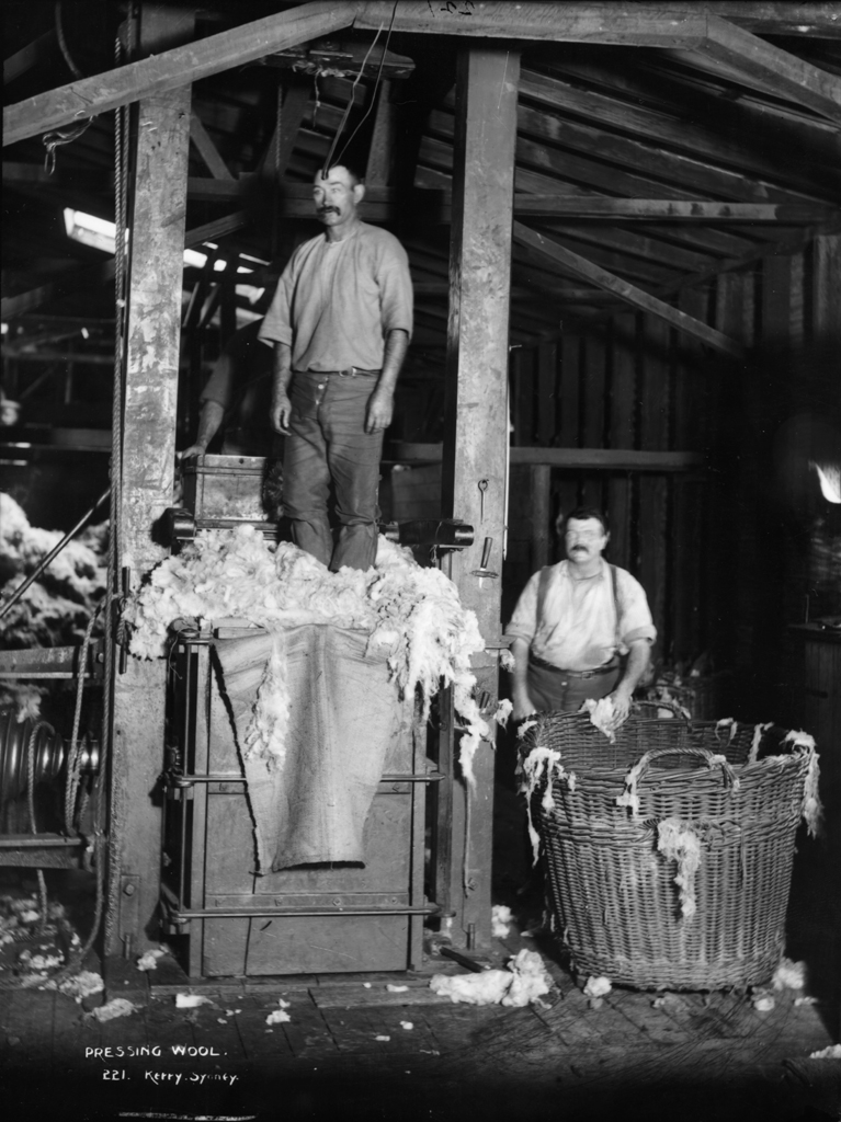 'Rural Life' Pictures from The Powerhouse Museum This file was posted to Flickr by The Powerhouse Museum (See the archive of their website for further information). Many thanks to the Powerhouse Museum for helping release this wonderful material. This tag does not indicate the copyright status of the attached work. A normal copyright tag is still required. See Commons:Licensing for more information.